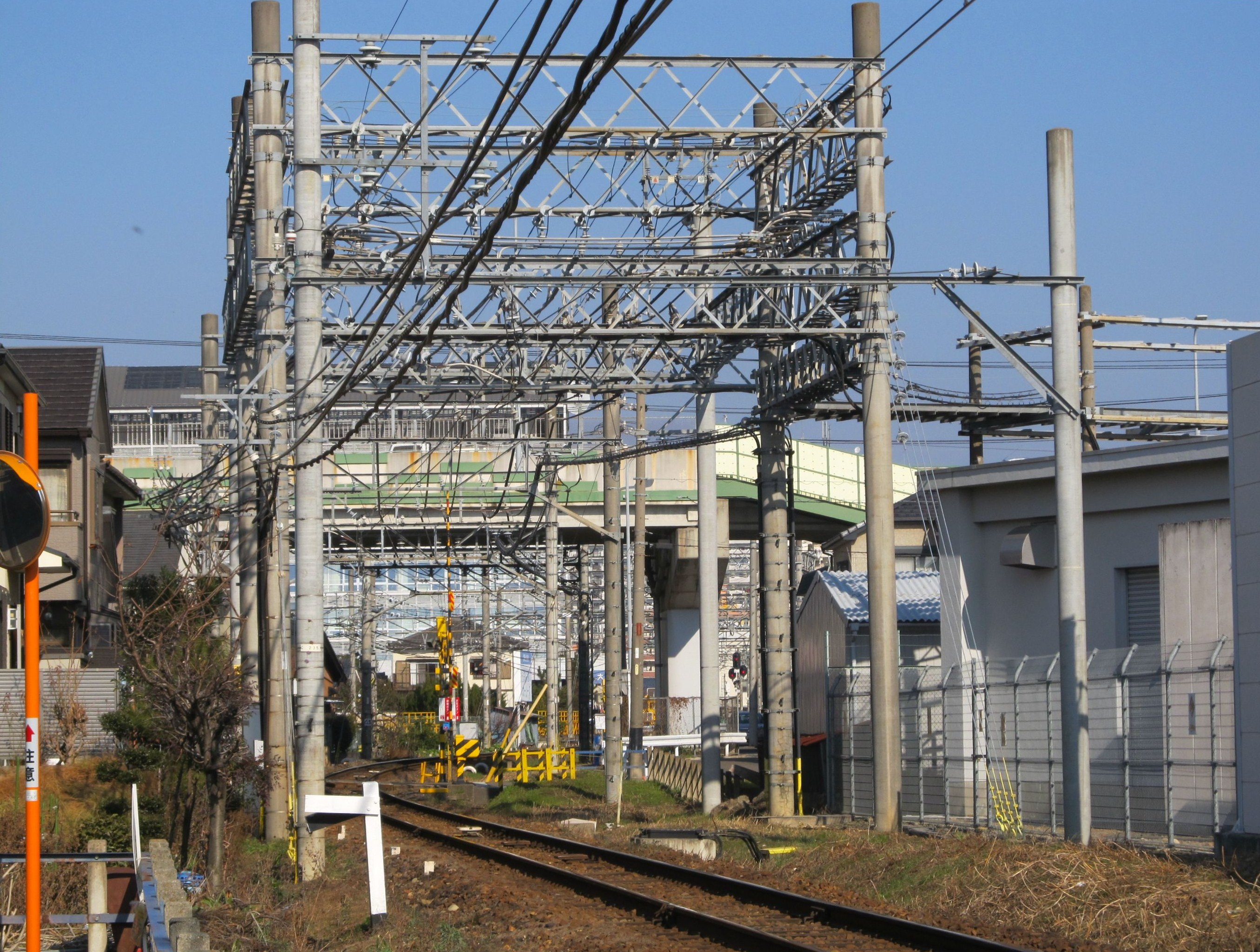 Inuyama Substation (Higashi Inuyama Station ruins).